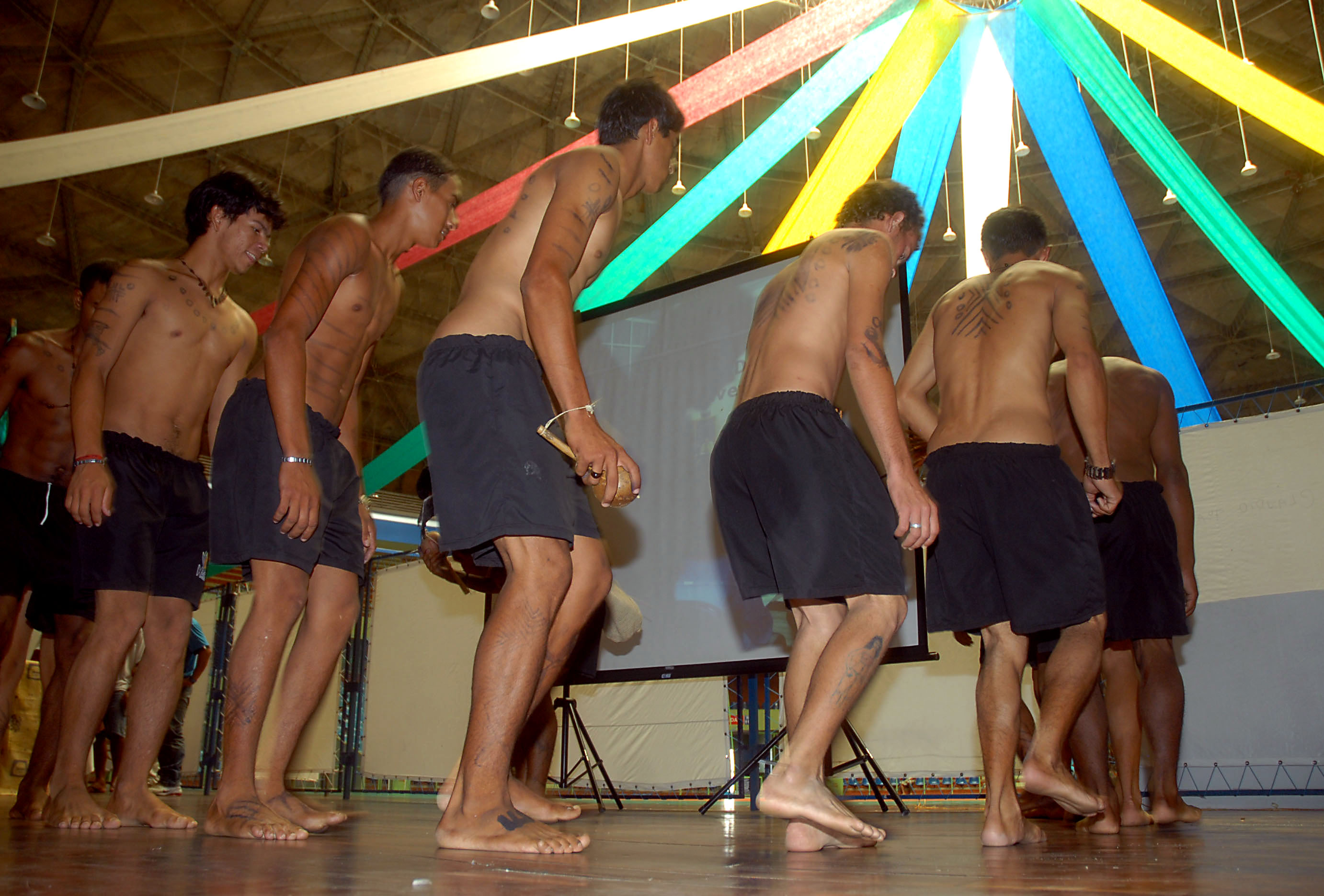 Toré dance, by Capinauá indians, during Indian people games (2007)